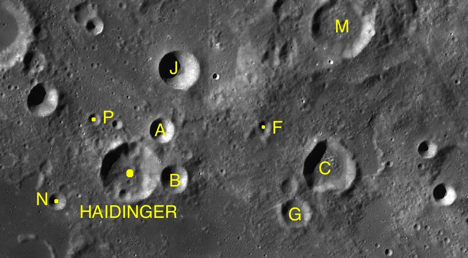 Part of the chart LAC-111